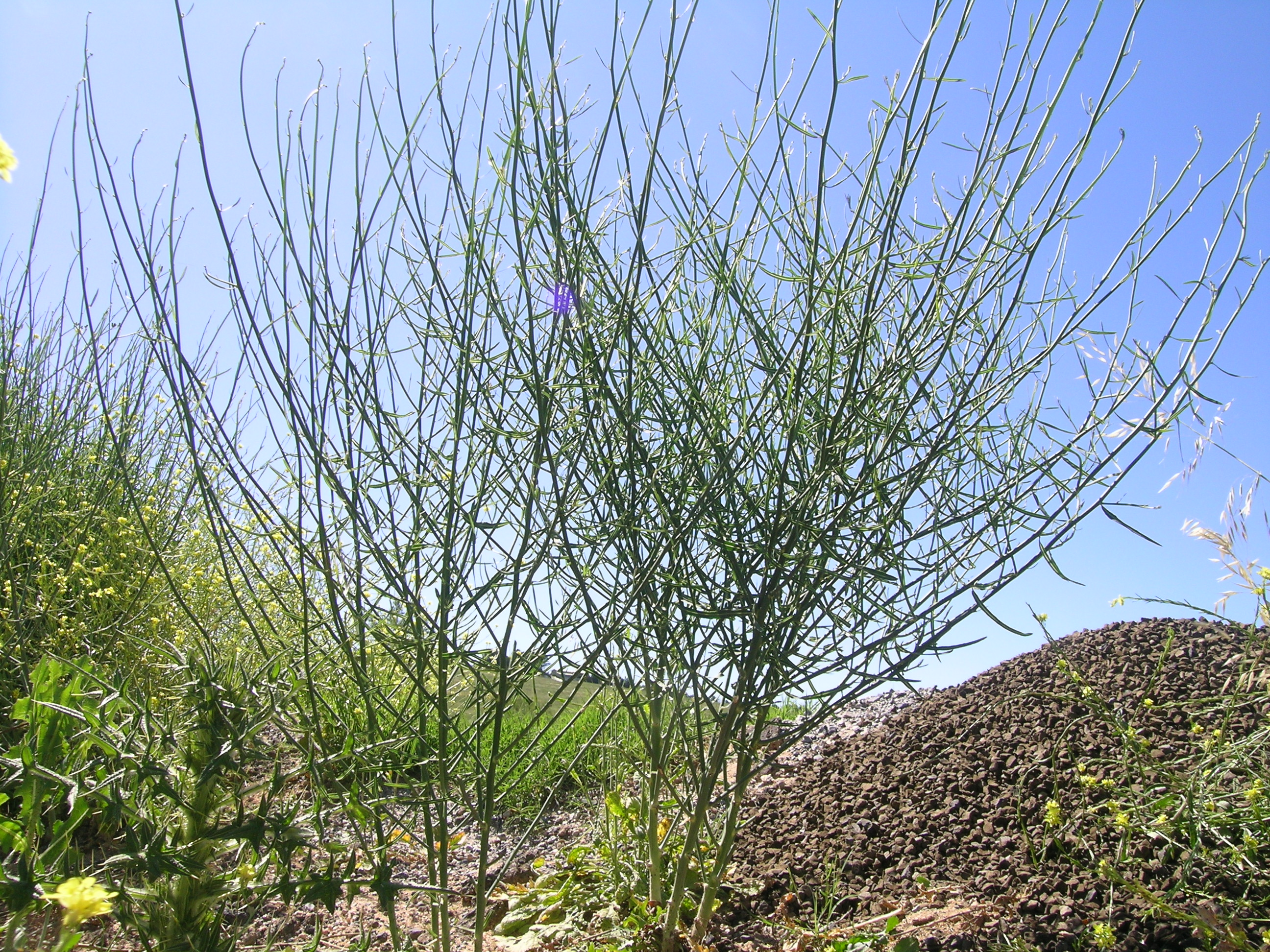 Introduced, warm-season, perennial, much-branched, stemmy and almost leafless herb 0.5-1 m tall; exudes white sap when cut; stems are ribbed. Leaves form a rosette when young that soon withers and are toothed or lobed with lobes pointing towards base. Stem leaves are usually linear with entire margins. Three forms occur; narrow, intermediate and broad leaf. Flowerheads consist of 1-3 heads in leaf axils; heads are 3-4 mm wide and have yellow ligulate florets. Generally germinates in autumn and flowers in spring and summer. Widespread in cropping land and degraded pastures in southern Australia; most common where there is continual cropping. Prefers areas where the soil is deep and light textured with summer rainfall. Seeds are dispersed by wind; root pieces can produce new plants. Major weed of cropping areas; chokes headers, competes with crops or depletes paddocks of moisture/ nutrients during fallows. Palatable and provides good quality feed when in the rosette stage. Vigorous, deep rooted pastures provide competition. A rust fungus (Puccinia chondrillina) is effective against the narrow leaf form.